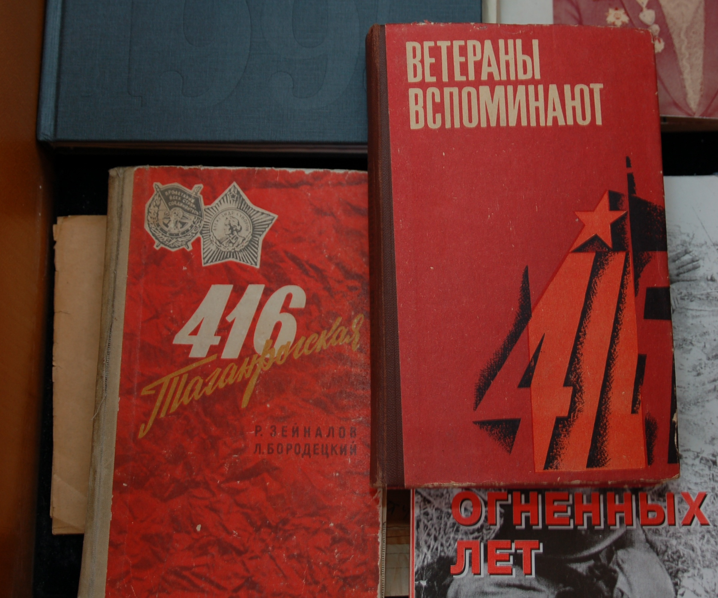 Books on 416th Rifle Division on display at 416th Taganrogskaya Rifle Division Museum in Taganrog's school #26. Photographed by Alexander Mirgorodskiy for